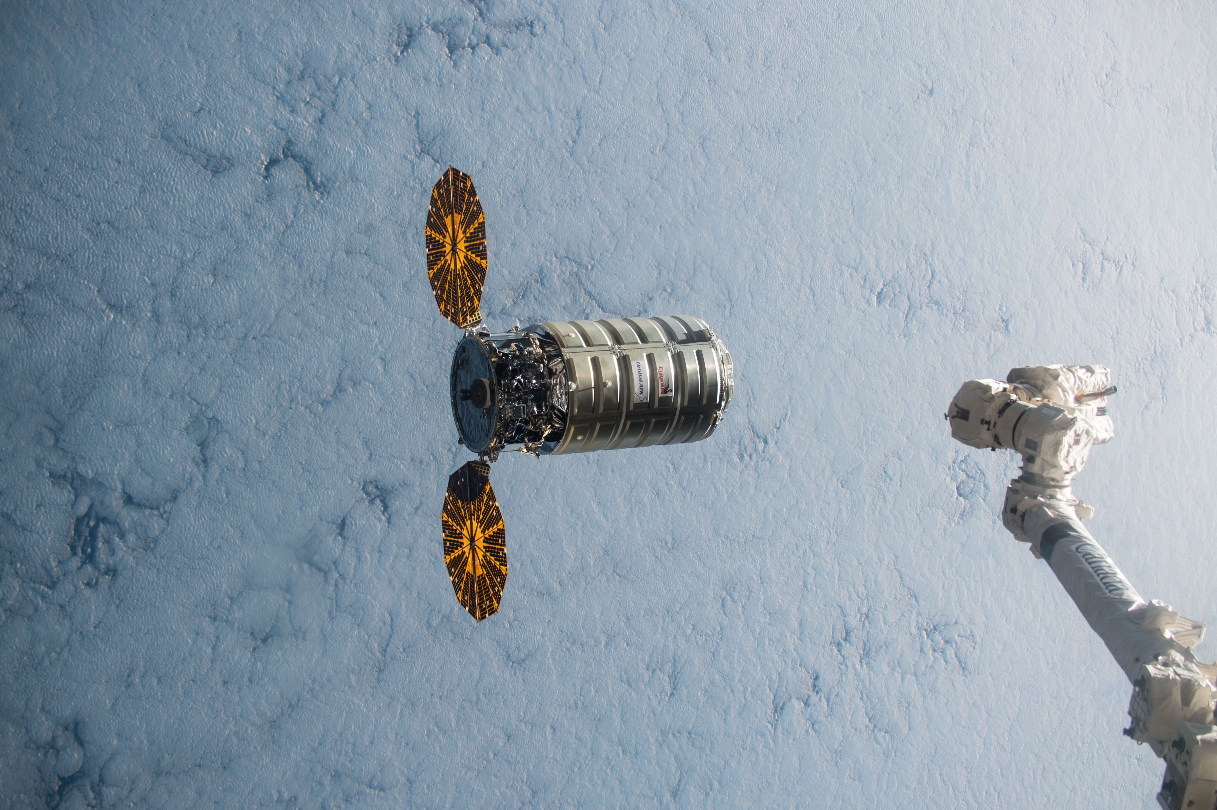 Using the International Space Station's robotic arm, Canadarm2 (right) NASA Flight Engineer Kjell Lindgren prepares to capture Orbital ATK's Cygnus cargo vehicle Dec. 09, 2015. The space station crew and the robotics officer in mission control in Houston will position Cygnus for installation to the orbiting laboratory's Earth-facing port of the Unity module. Among the more than 7,000 pounds of supplies aboard Cygnus are numerous science and research investigations and technology demonstrations, including a new life science facility that will support studies on cell cultures, bacteria and other microorganisms; a microsatellite deployer and the first microsatellite that will be deployed from the space station; several other educational and technology demonstration CubeSats; and experiments that will study the behavior of gases and liquids, clarify the thermo-physical properties of molten steel, and evaluate flame-resistant textiles.